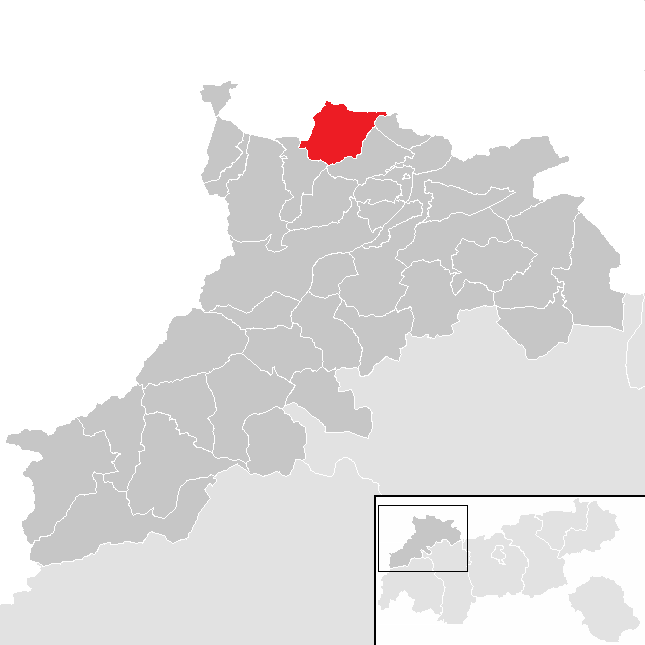 District Reutte